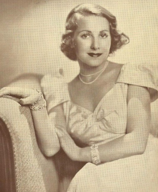 Promotional photo of Jessica Dragonette for a magazine contest and promotion of the radio show she was on.